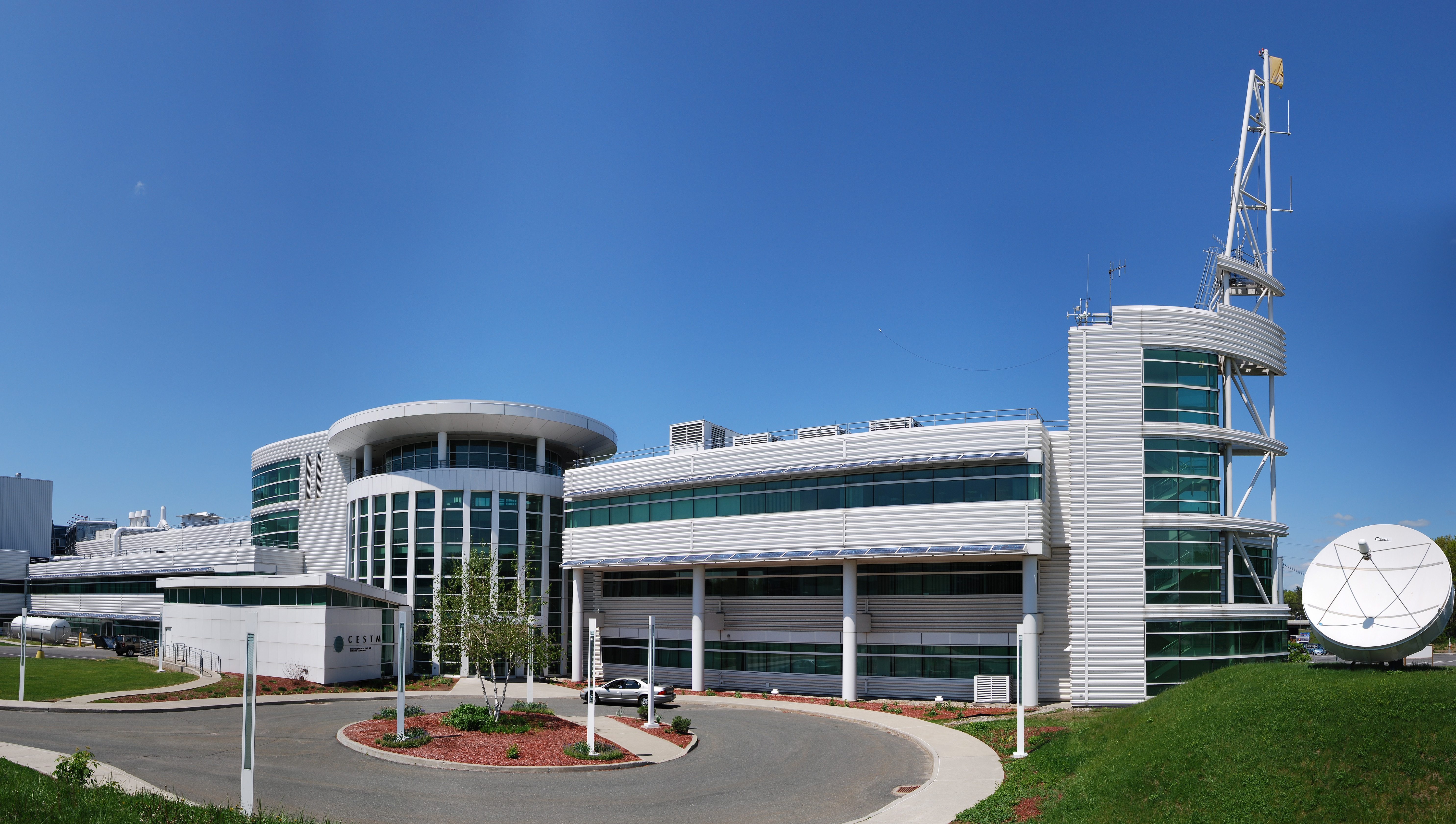 Center for Emerging Sciences and Technology Management at University at Albany, part of the State University of New York, located in Albany, New York, United States